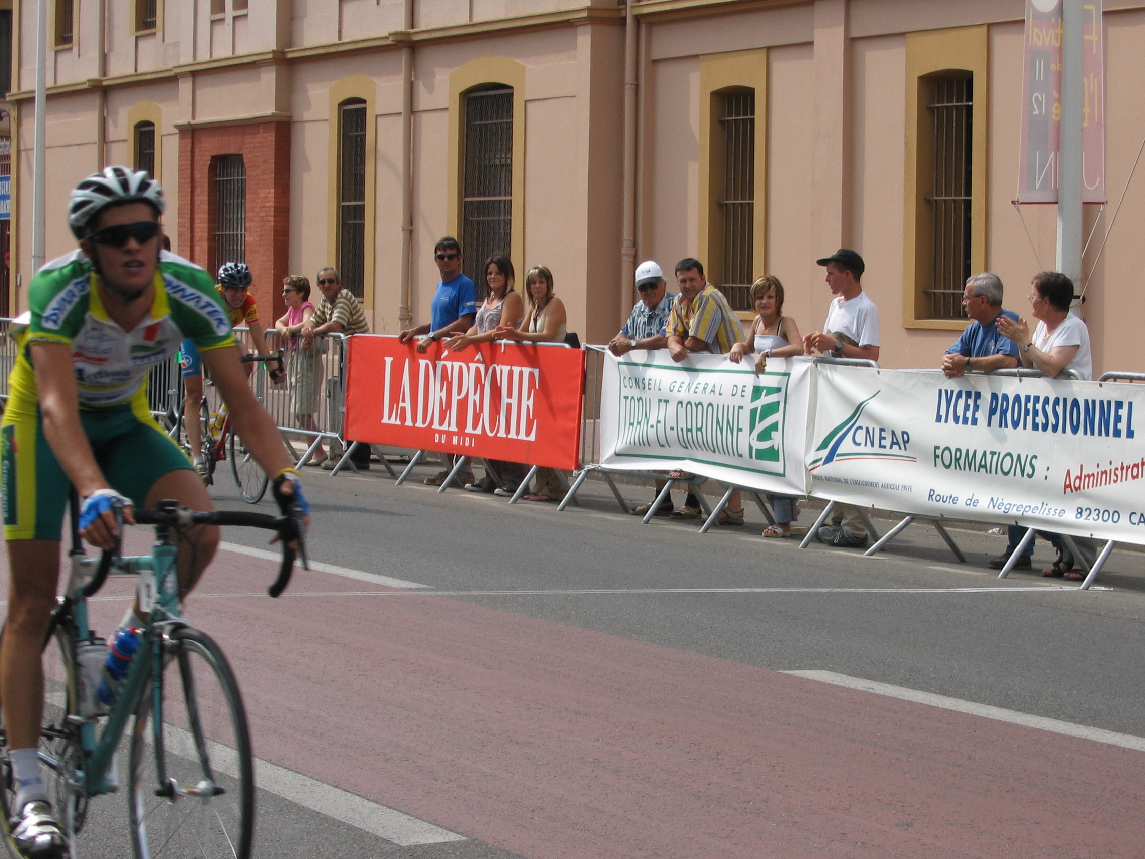 Tour du Tarn et Garonne, Juin 2005